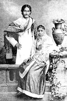 Rabindranath Tagore and his wife, Mrinalini Devi. Photo taken circa 1883. The image also exists as Image:Rabindranath-Tagore-Mrinalini-Devi-1883.jpg.